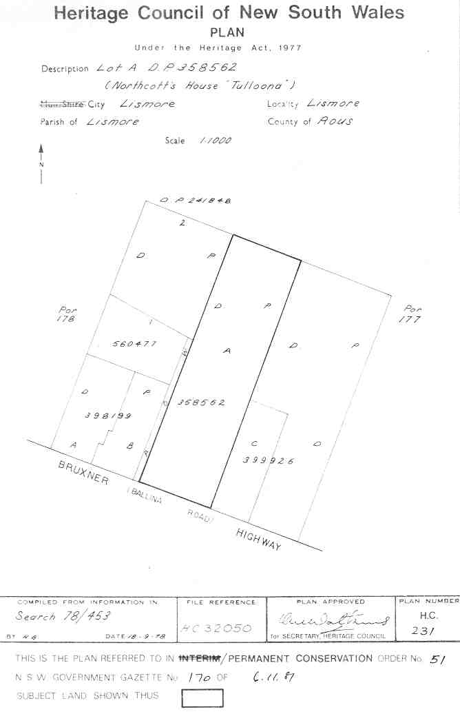 Tulloona: PCO Plan Number 051